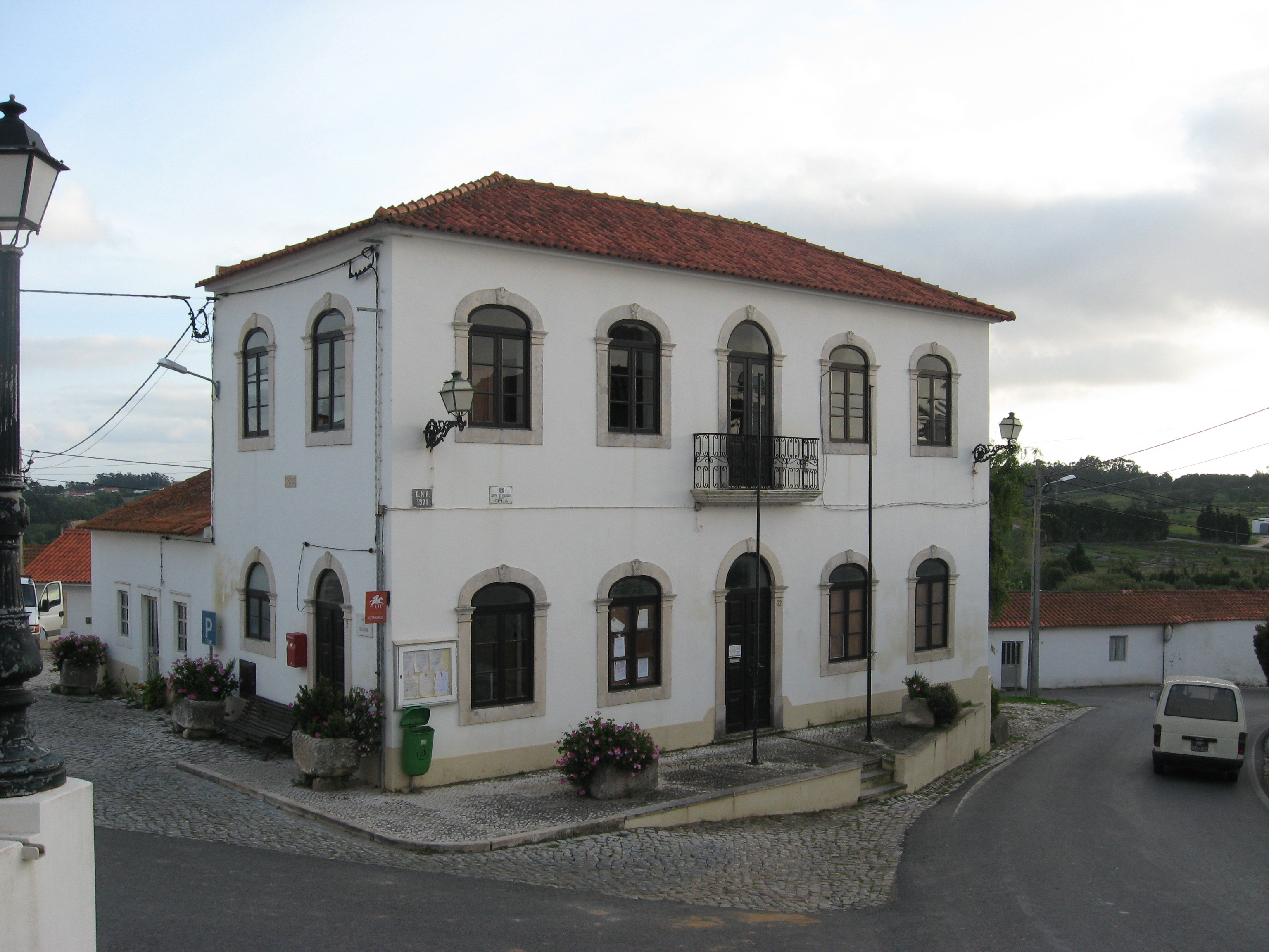 Alcobaça, Portugal. Mosteiro de Alcobaça, Coutos de Alcobaça, old county of the Abbes, city hall for 1888